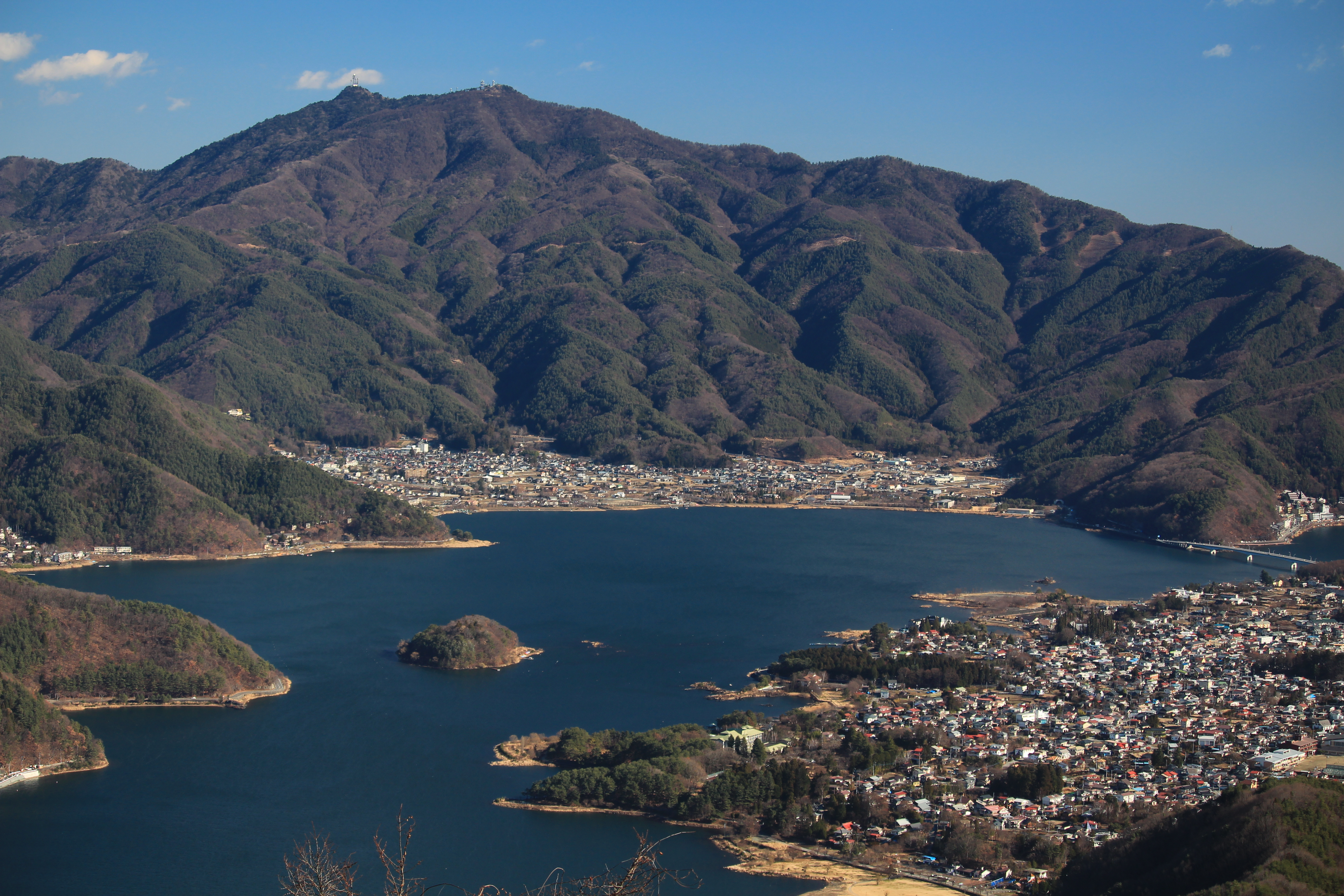 Mount Mitsutoge and Lake Kawaguchi seen from Mount Ashiwada in Yamanashi prefecture, Japan.